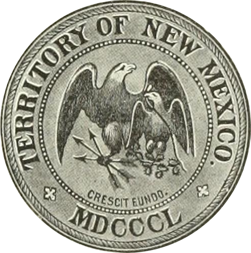 Territorial Seal of New Mexico immediately before statehood